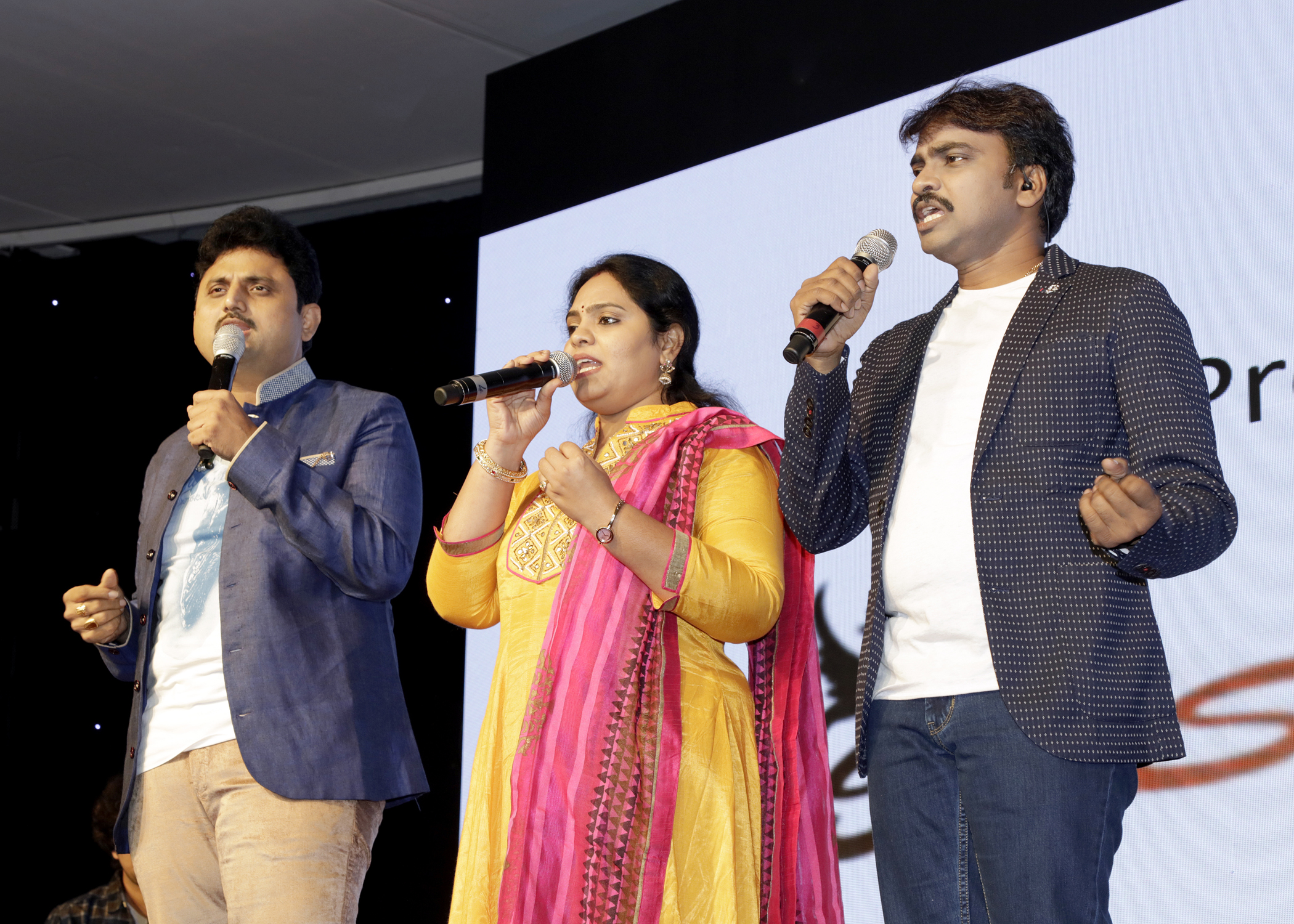 Suswana Team